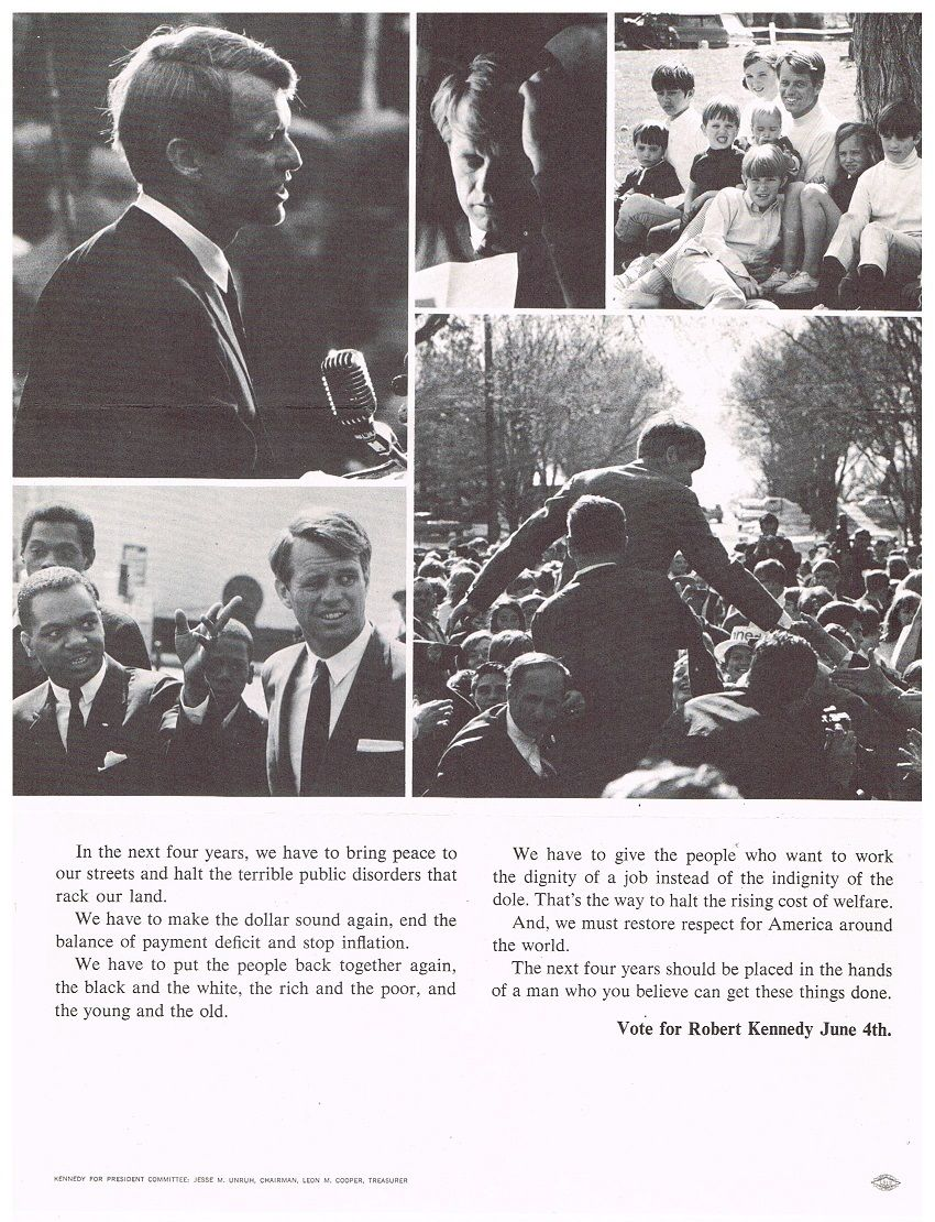 1968 California ROBERT F. KENNEDY flyer